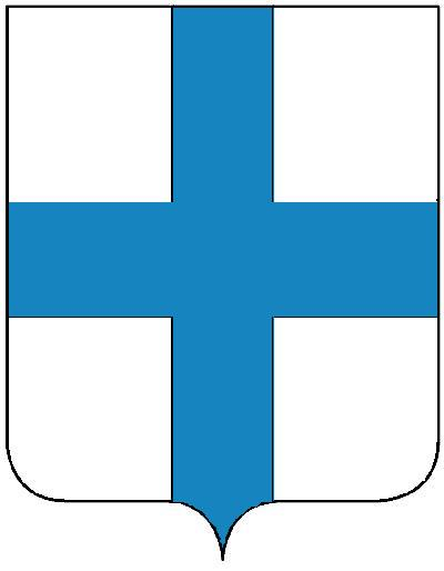 Coat of arms of the Filangieri of Naples. Based on Nobiliario di Sicilia by A. Mango di Casalgerardo.